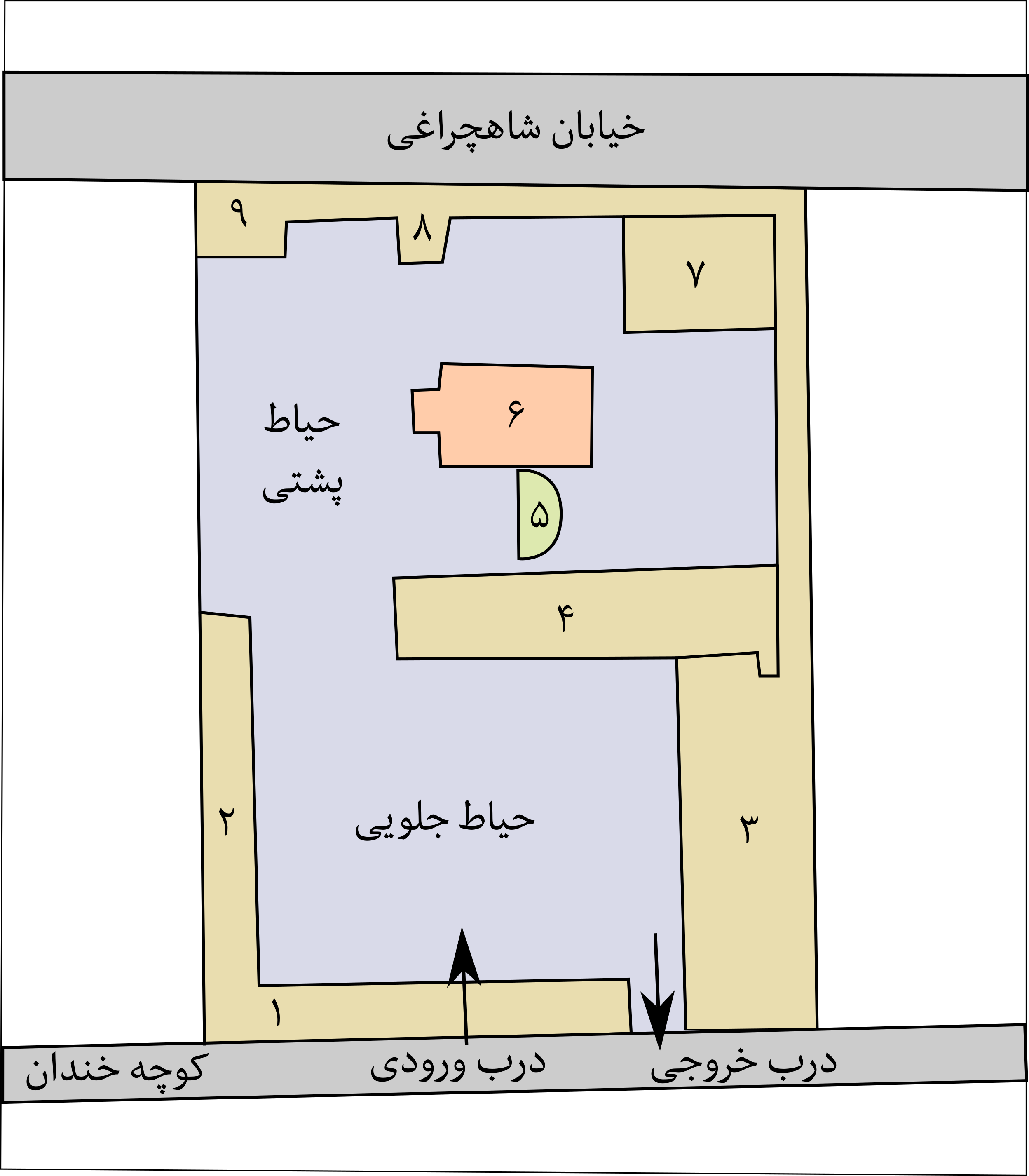 Schematic map of the Saint Louis School in Tehran (use SVG version to edit)